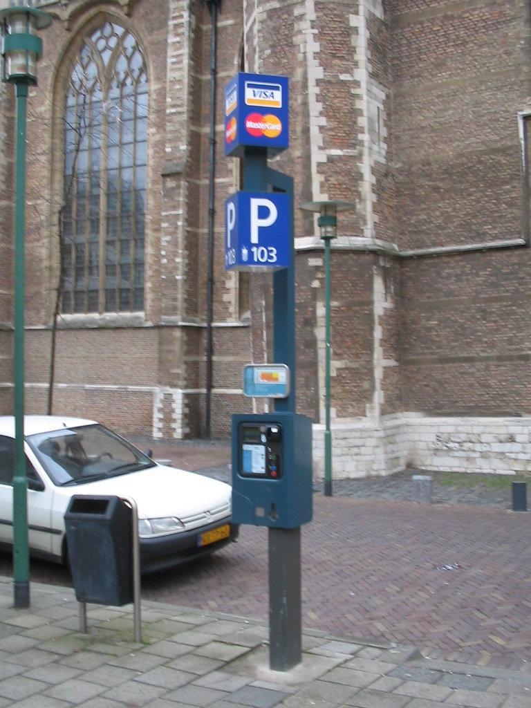 Parking meter in Rotterdam